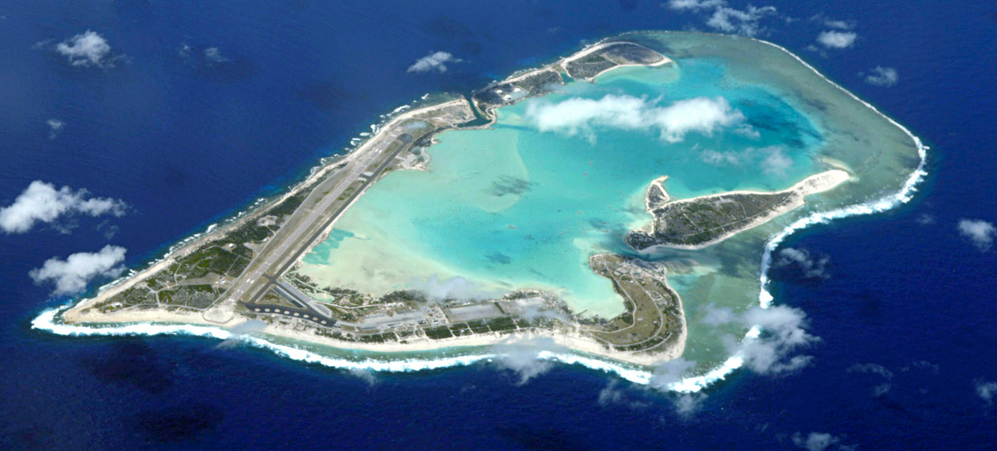 Wake Island was devastated by 185 mile per hour winds and a storm surge caused by Super Typhoon Ioke in August of 2009. The waves surging approx. 300ft off the northern coast and lagoon entrance is a result of the reef rapidly rising to within a few feet of the surface. (U.S. Air Force photo/Tech. Sgt. Shane A. Cuomo) License